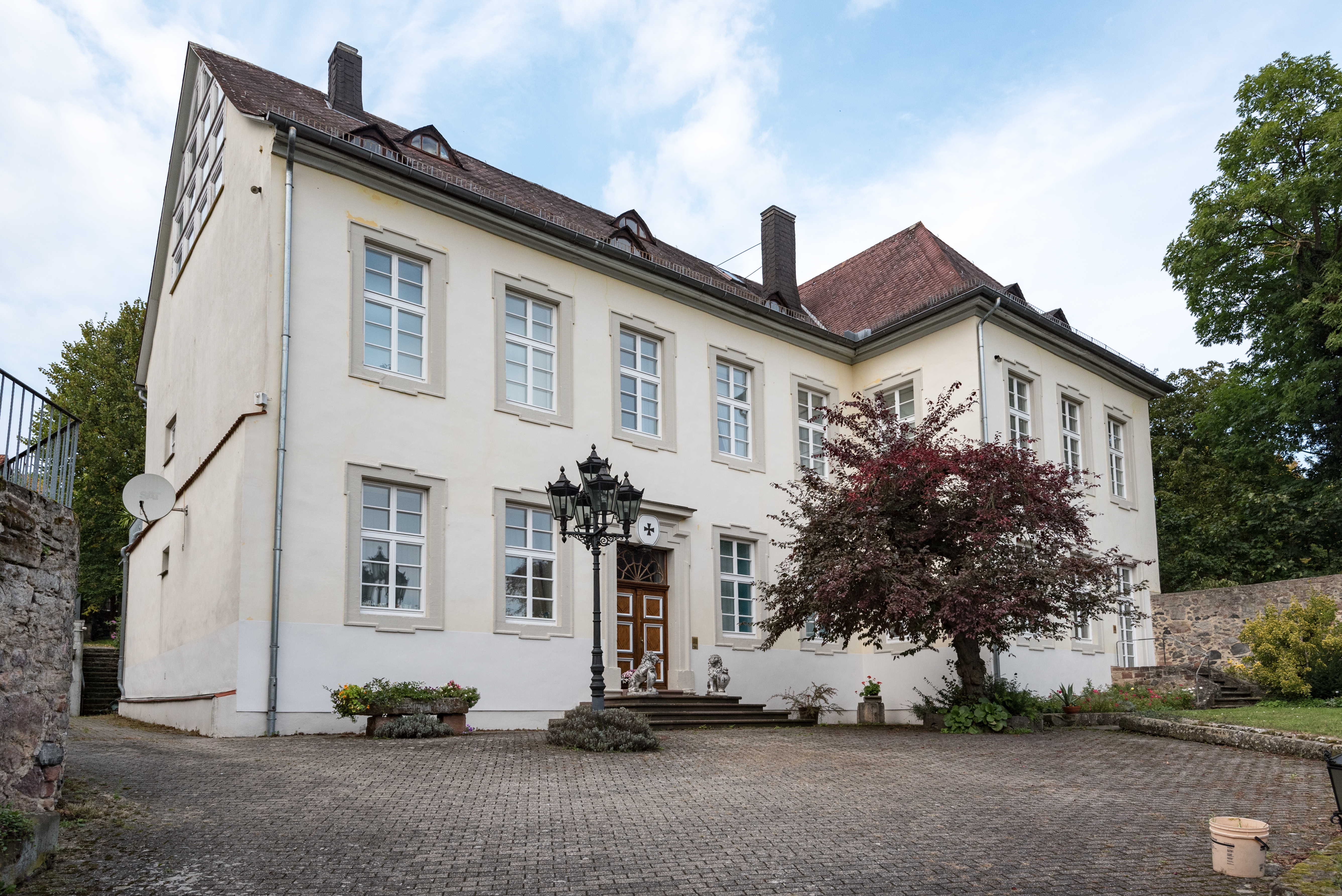 The former house of the Order of the Teutonic Knights in Fritzlar, 2017; today privately owned dwelling